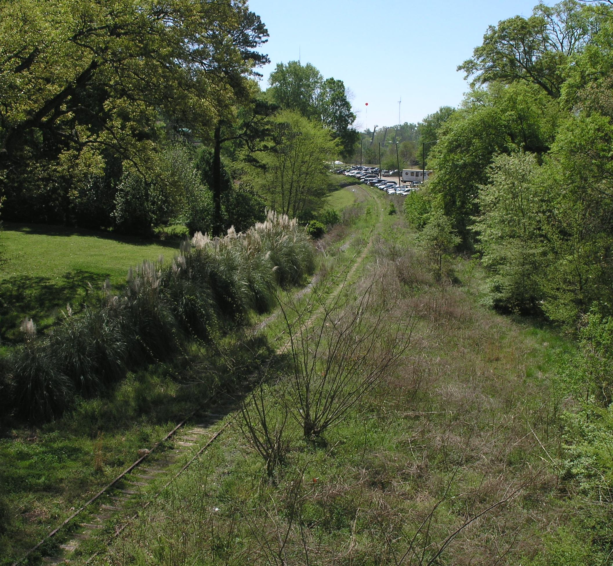 Photo taken in Atlanta area